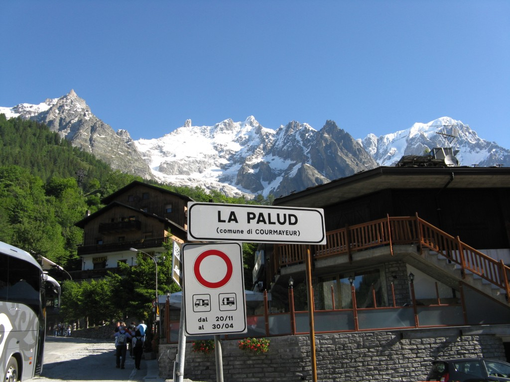 La Palud (Courmayeur) - view at Dent du Géant